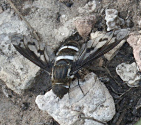 Currently undescribed species of bee fly of the genus Exoprosopa, Walnut Canyon, Carlsbad Caverns National Park, New Mexico. Thanks to Andy Calderwood at for this information.